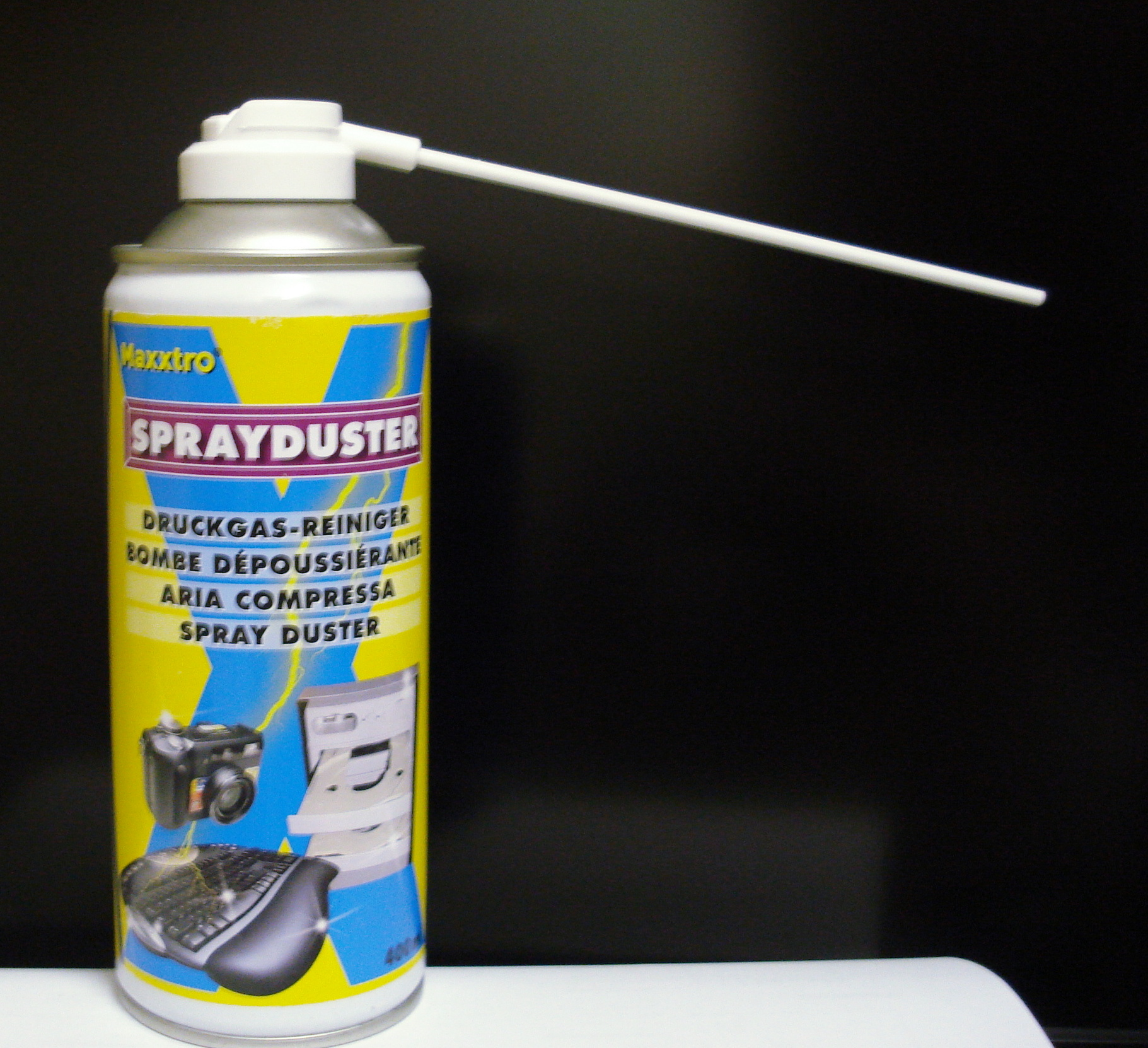 Canned Air, and similar cans of pressurized gas are sold in computer and general stores and used principally for the purposes of blowing a gas through a nozzle, (the long thin pipe), for example, between the keys of a computer keyboard in order to clear out dust and crumbs. Unfortunately, some people inhale the gas to get a temporary high. They do not realize it is dangerous because they mistakenly believe the can contains nothing but air. This is wrong. Like many pressurized containers it contains a propellant such as freon, a poisonous substance and sometimes other dangerous substances. Keywords: Canned Air, Dust-off, Computer cleaner, computer blower, spray duster, blower, keyboard cleaner, Air-blower, inhalent, dangerous, poisonous, do not breathe, freon, pressurised gas, pressurised air, substance abuse.